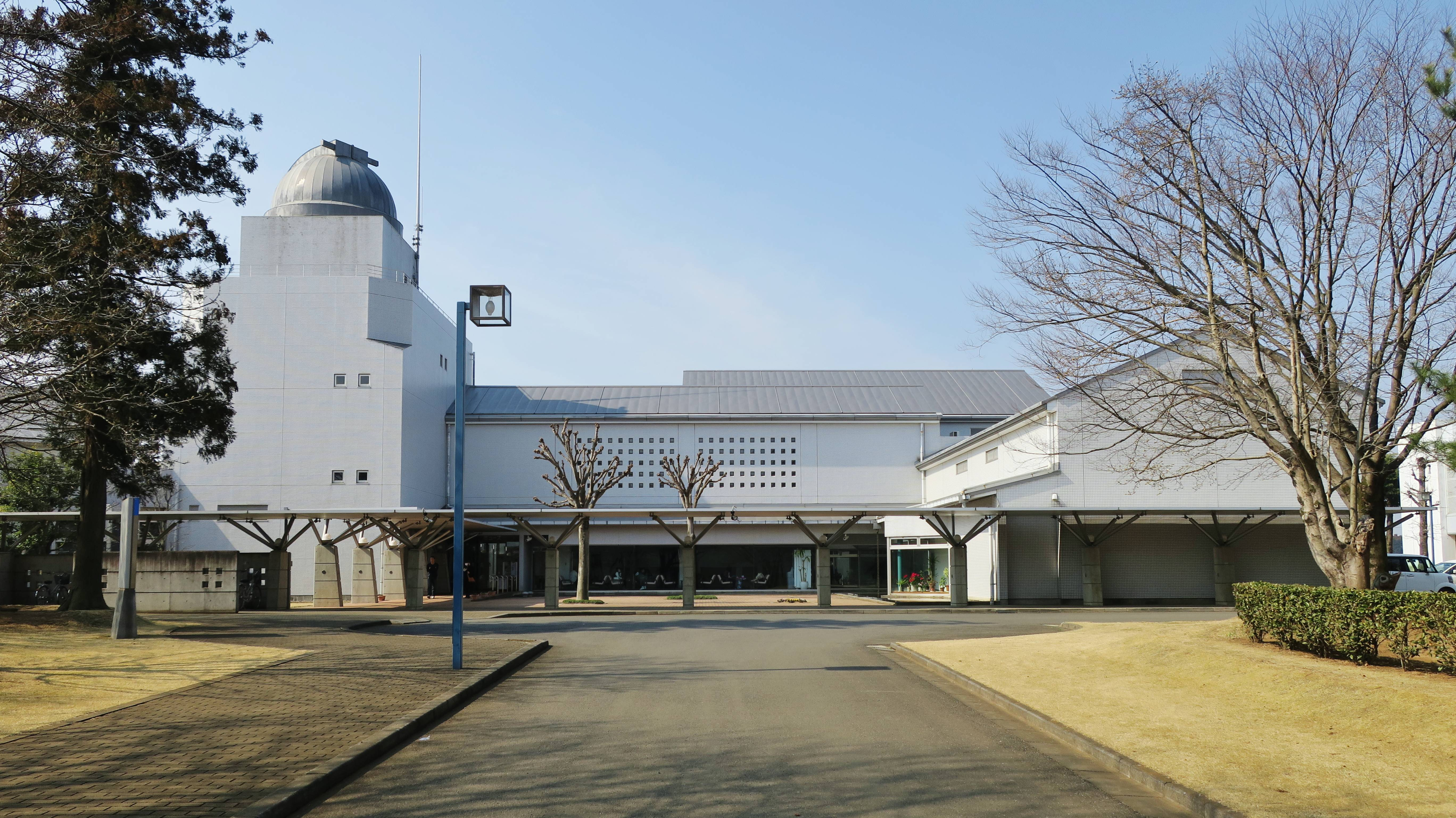 Bando Folk Muse.